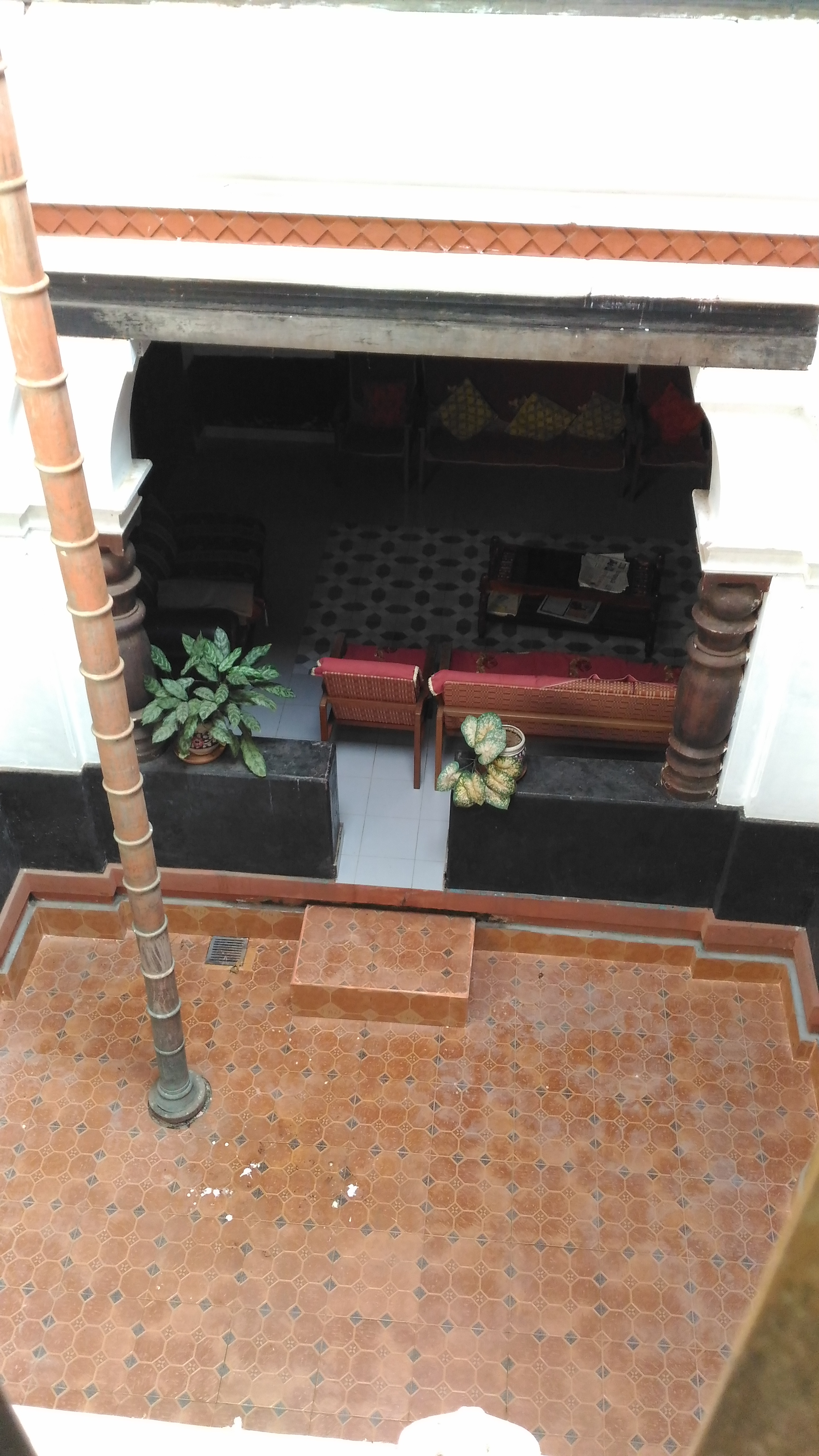 A Nalukettu House with a Nadumuttam